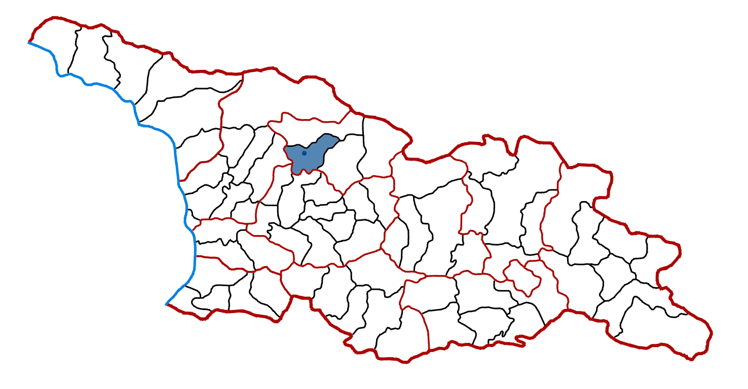 Location of Tsageri district in Georgia